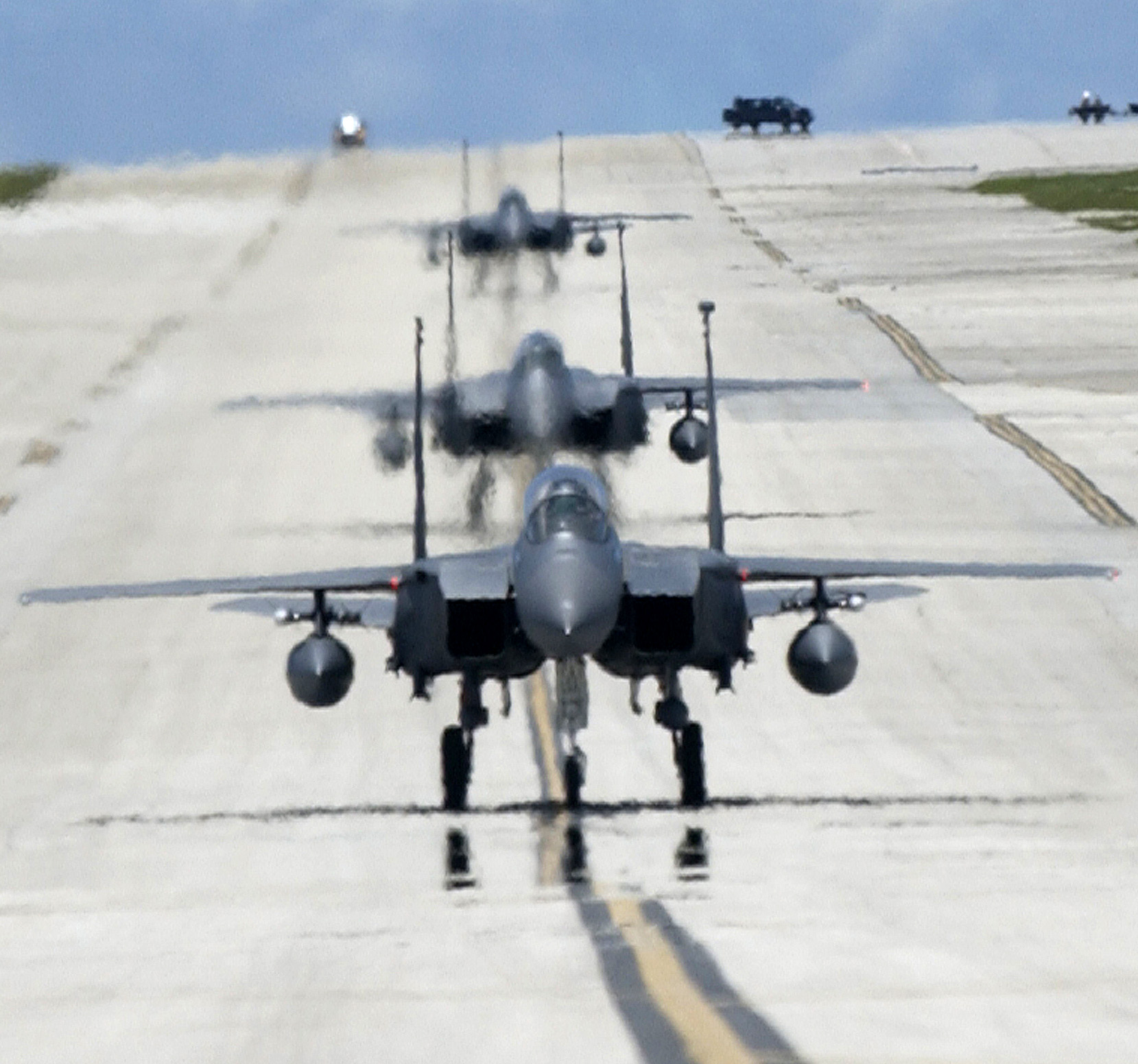 U.S. Air Force F-15E Strike Eagles taxi at Andersen Air Force Base, Guam, after a training sortie, June 5, 2006. The Strike Eagles are here through September as part of an air expeditionary deployment.